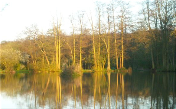 Author/Owner Frank Graves at Henfold Lakes in the morning. This is all my own work, taken by me and is usable as I grant any entity the right to use this work for any purpose, without any conditions.